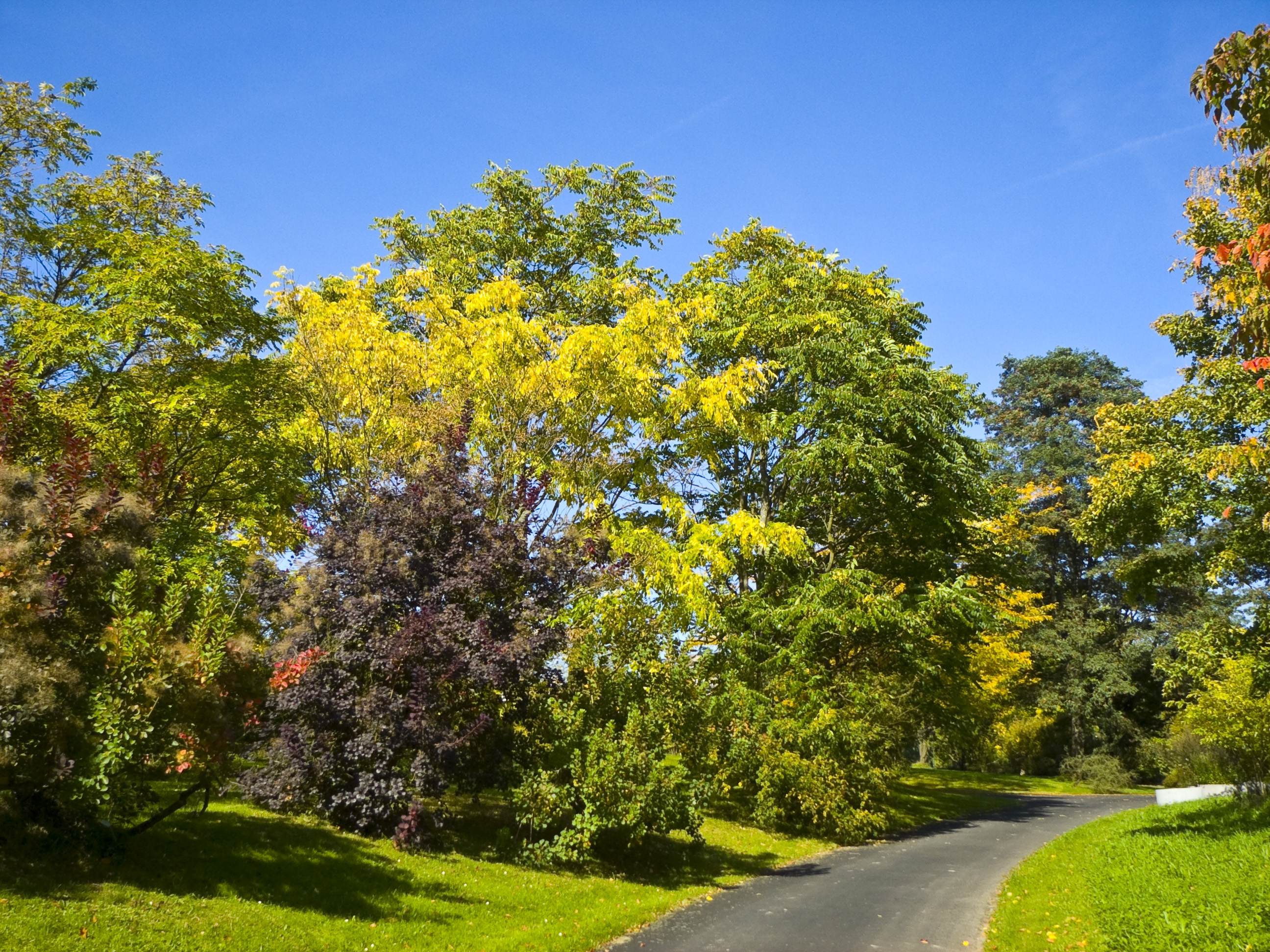 New Botanical Garden Marburg on the Lahnhills, Hesse, Germany